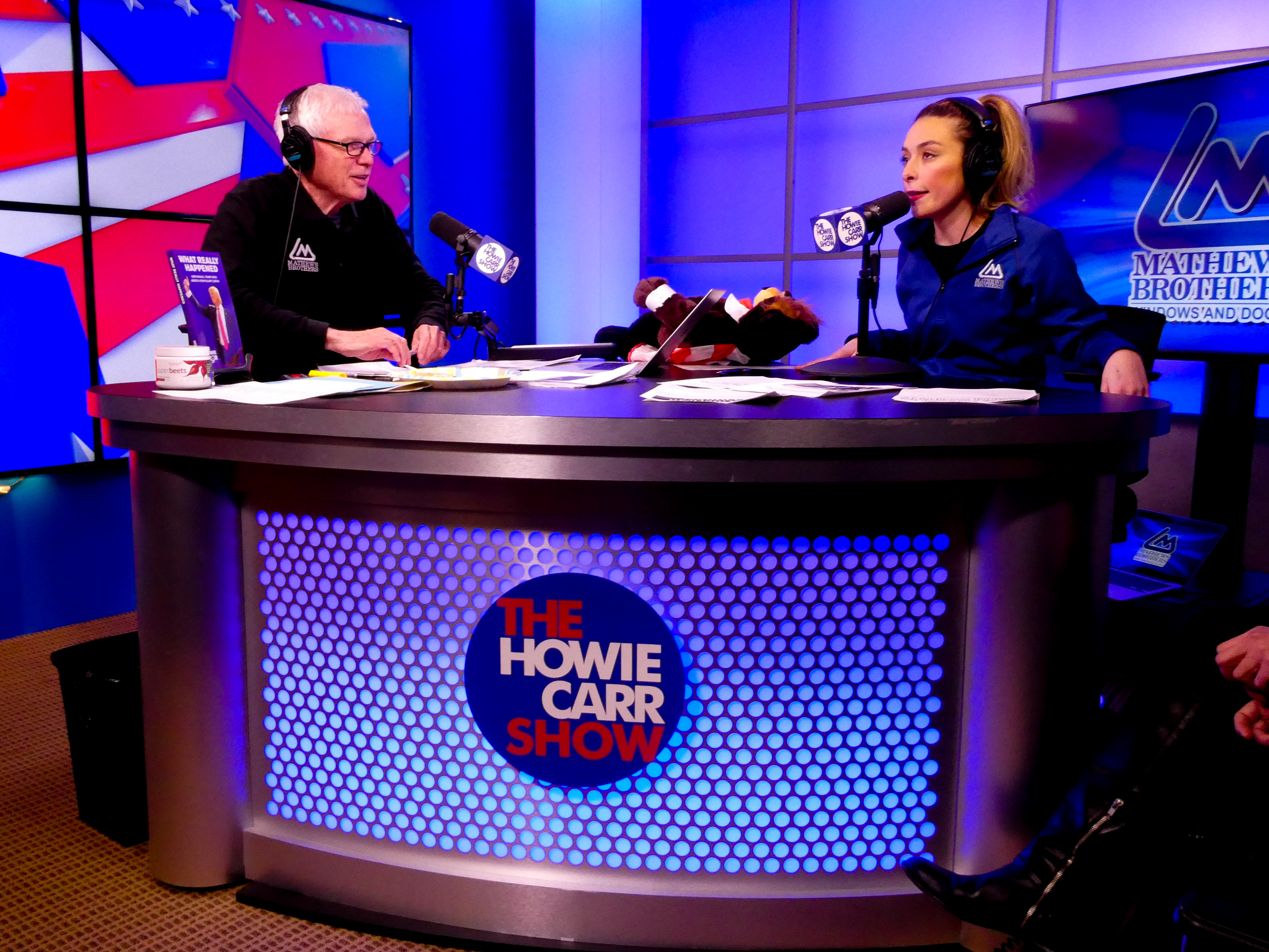 This photo is self-explanatory. It shows Howie Carr and Grace Curley during a January, 2020 broadcast at the studio in Needham, Massachusetts, USA.